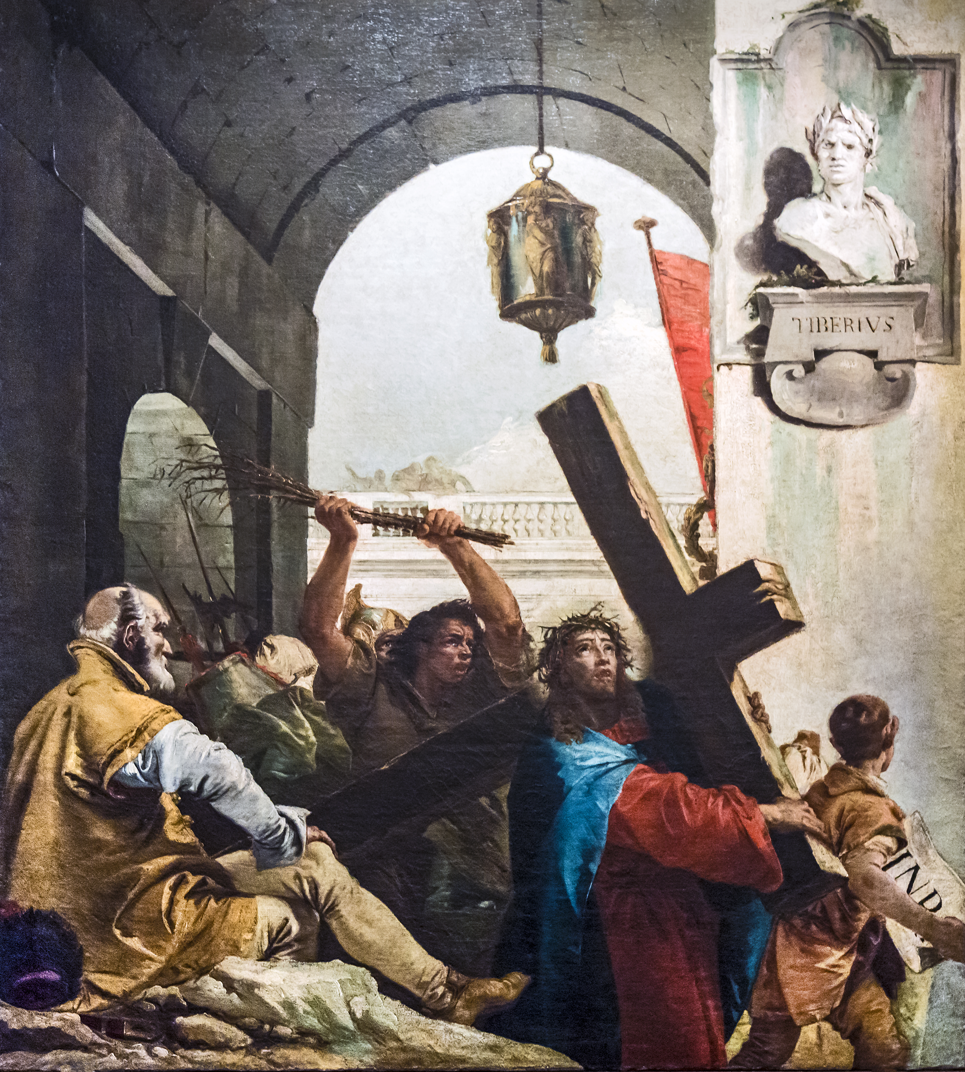 San Polo (church) - Oratory of the Crucifix - VIA CRUCIS II - Jesus carries his cross by Giandomenico Tiepolo. Oil on canvas (1745 -1749).